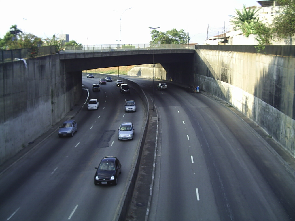 Salim Farah Maluf Avenue in São Paulo City.